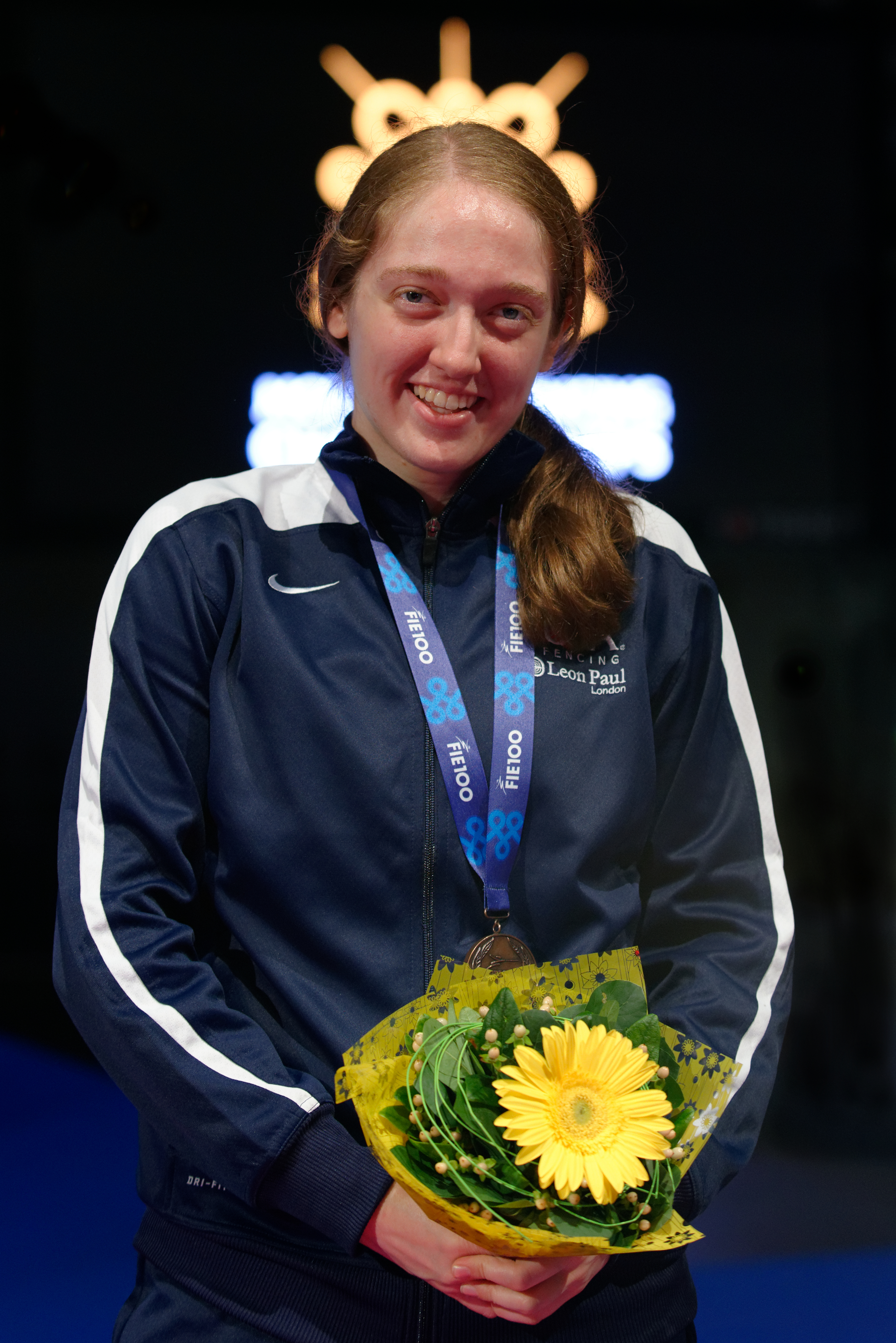 Anne-Elizabeth Stone of the United States poses for photographs during the victory ceremony of the women's team sabre event in the 2013 World Fencing Championships 2013 at Syma Hall in Budapest, 12 August 2013.